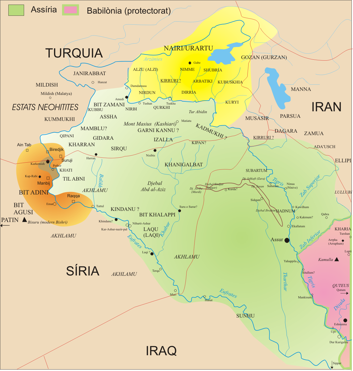 Assyria under Assurnasirpal II